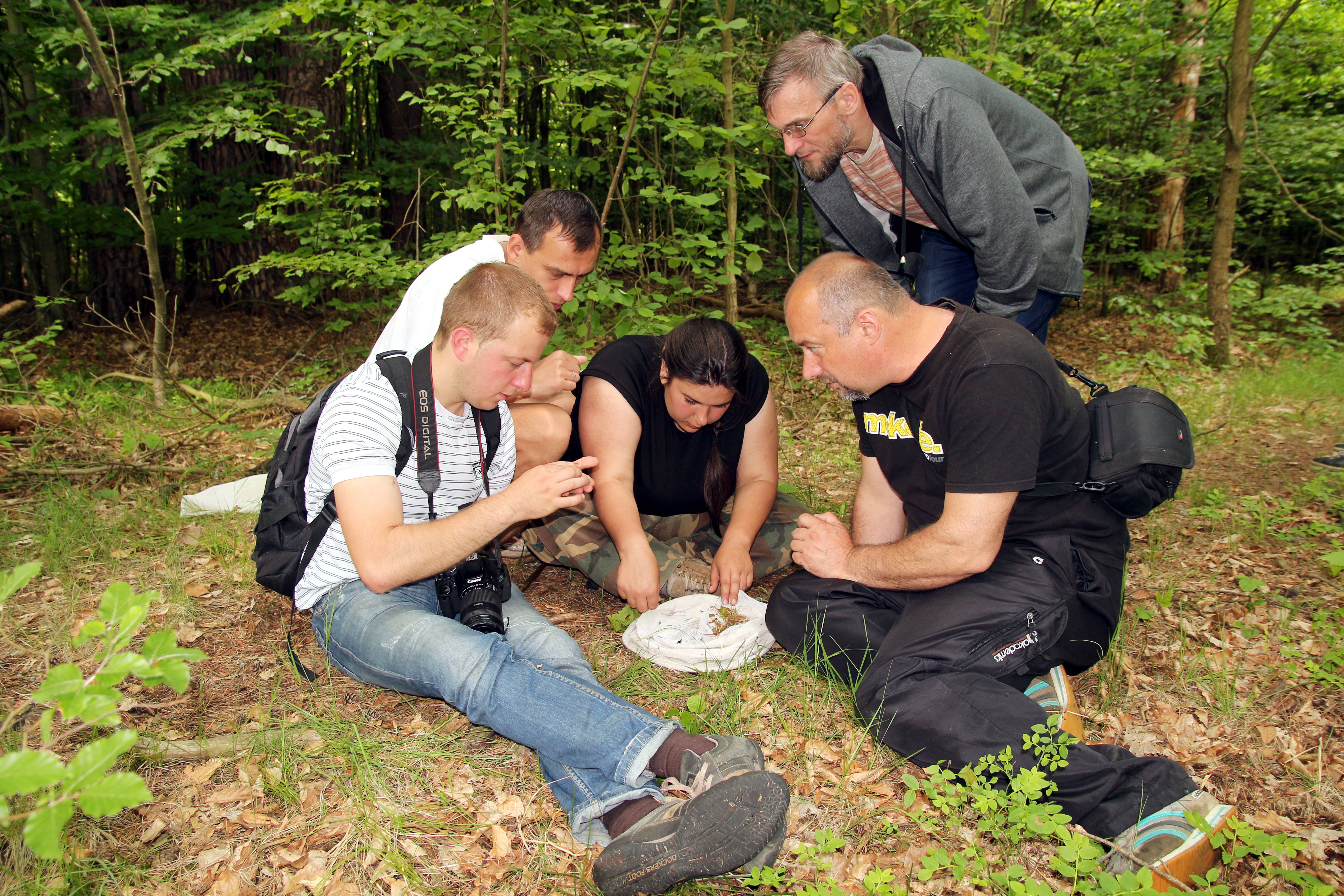 Collecting of entomological material